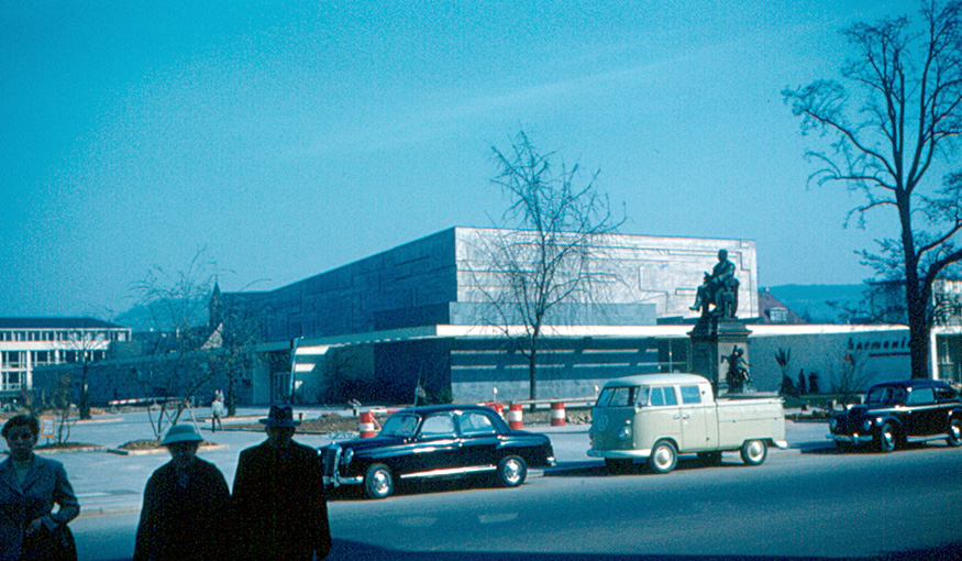 The Harmonie is a multi-purpose building in Heilbronn, completed in 1958. It is like a convention center, and also had a restaurant. It is on the east side of the Allee, a boulevard where the city walls once stood. The Harmonie replaced an earlier building that was destroyed in World War II. It has since been rebuilt as a larger facility.